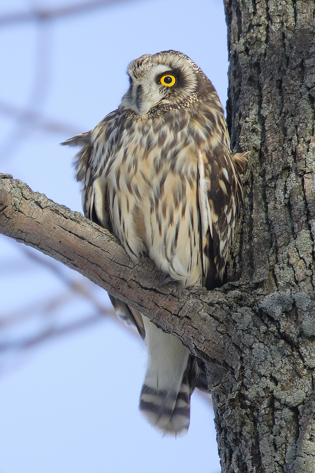 Short-eared Owl. Photo taken on Amherst Island (Ontario, Canada) on a windy day.